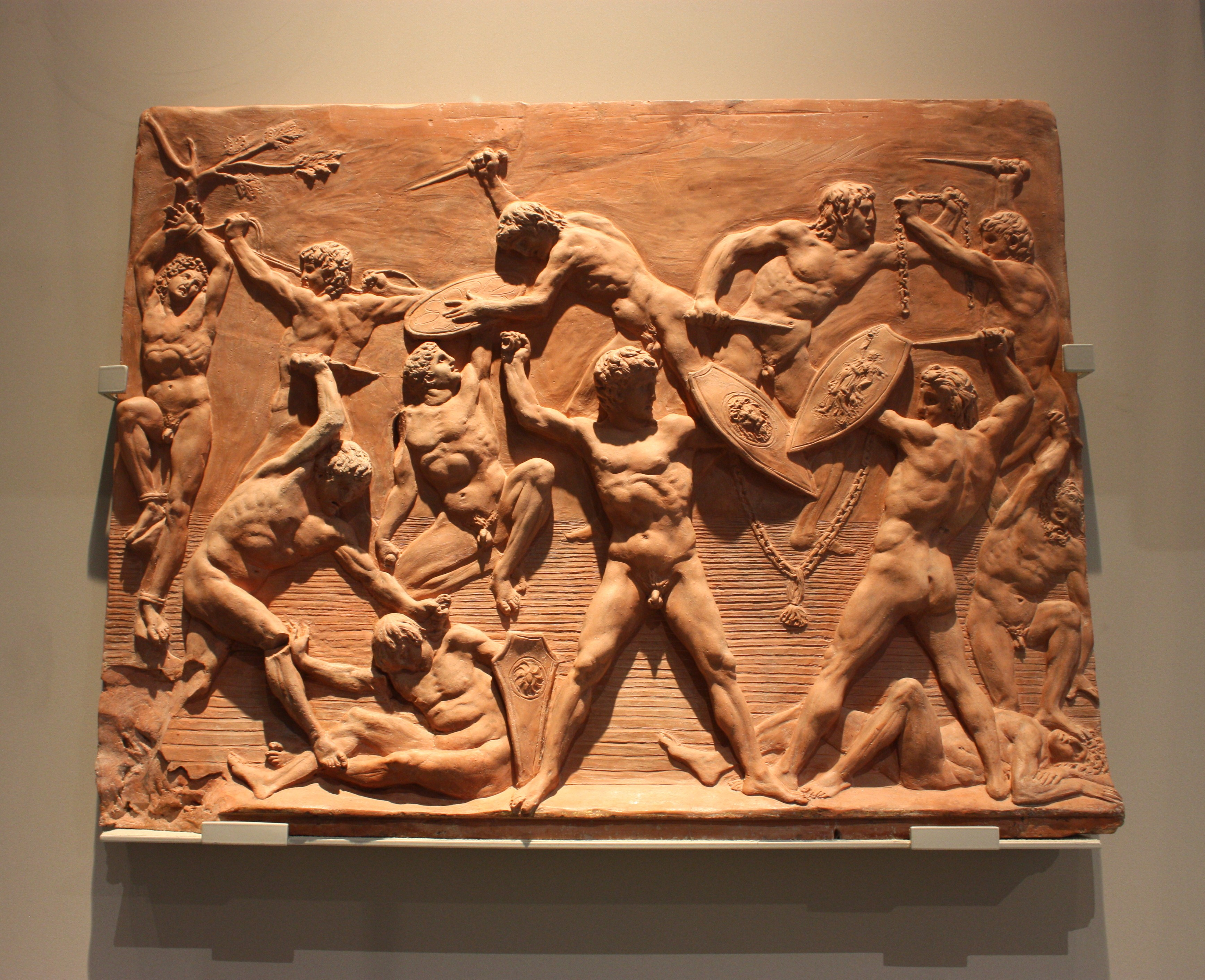 Studies of Male Nudes in Combat The Florentine painter Antonio Pollaiuolo\'s interest in drawing the male nude in active pose was shared by many Renaissance artists. His Combat engraving was widely distributed across Italy and Northern Europe, as shown by the figures appearing in other works of art. The terracotta relief recalls elements of Pollaiuolo\'s engraving. Relief Possibly 1470-1500 Italy Terracotta Collection ID: 7598-1861 This photo was taken as part of Britain Loves Wikipedia in February 2010 by Valerie McGlinchey.